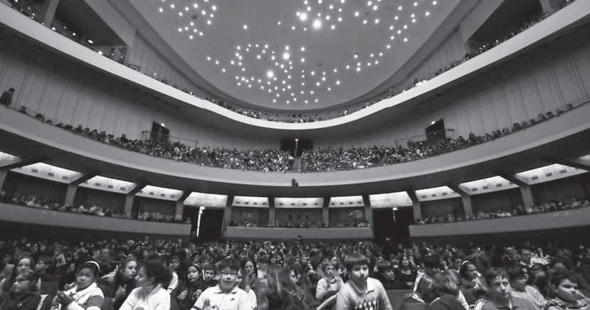 Teatro Comunale Firenze